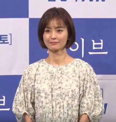 Follow Dispatch! Dispatch Subscribe